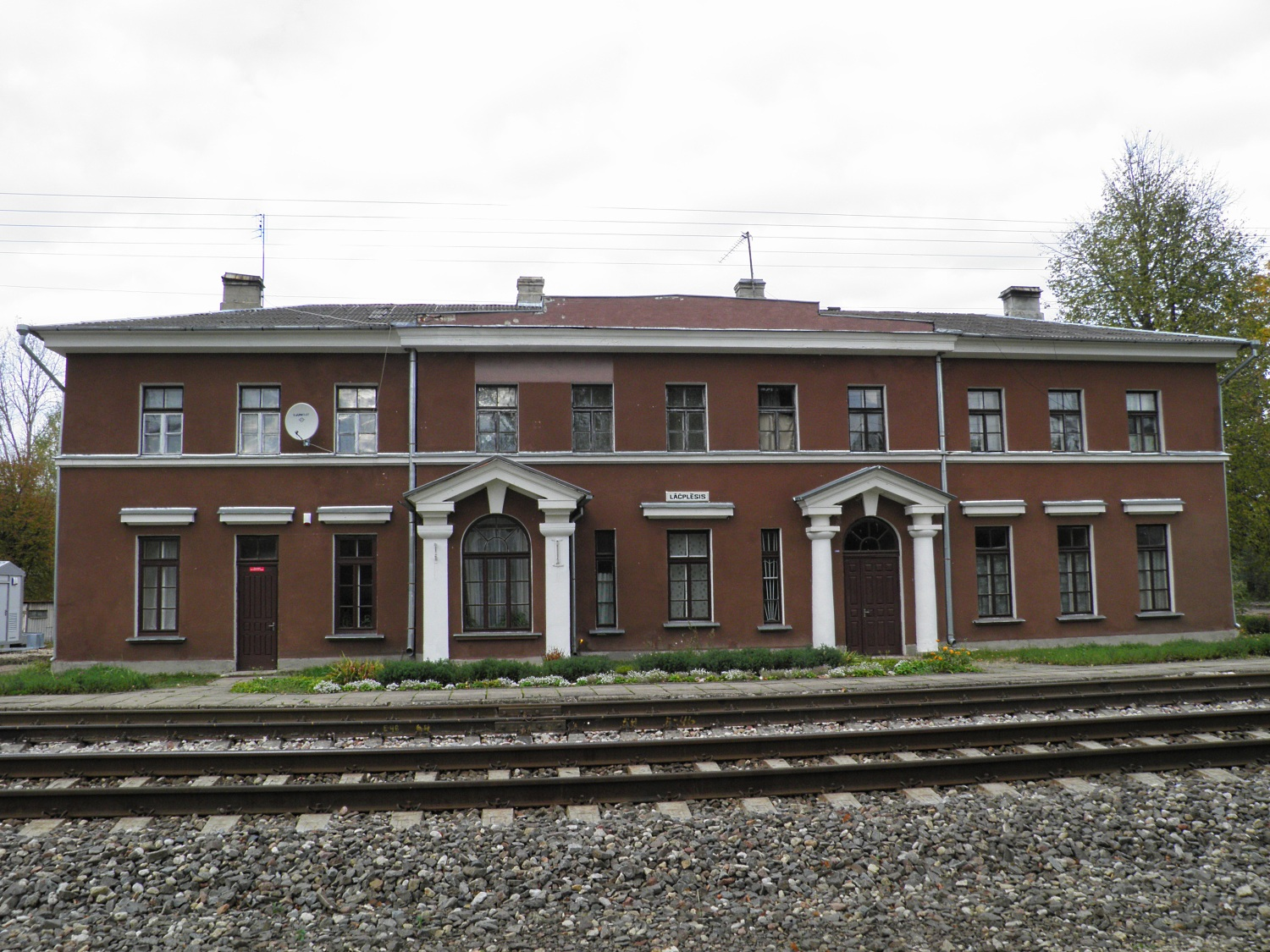 Lāčplēsis train station on Jelgava I–Krustpils line